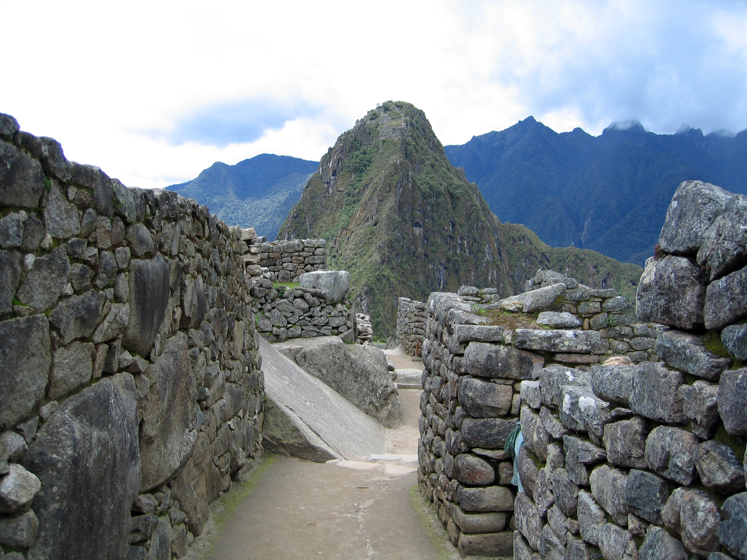 Peru Machu Picchu